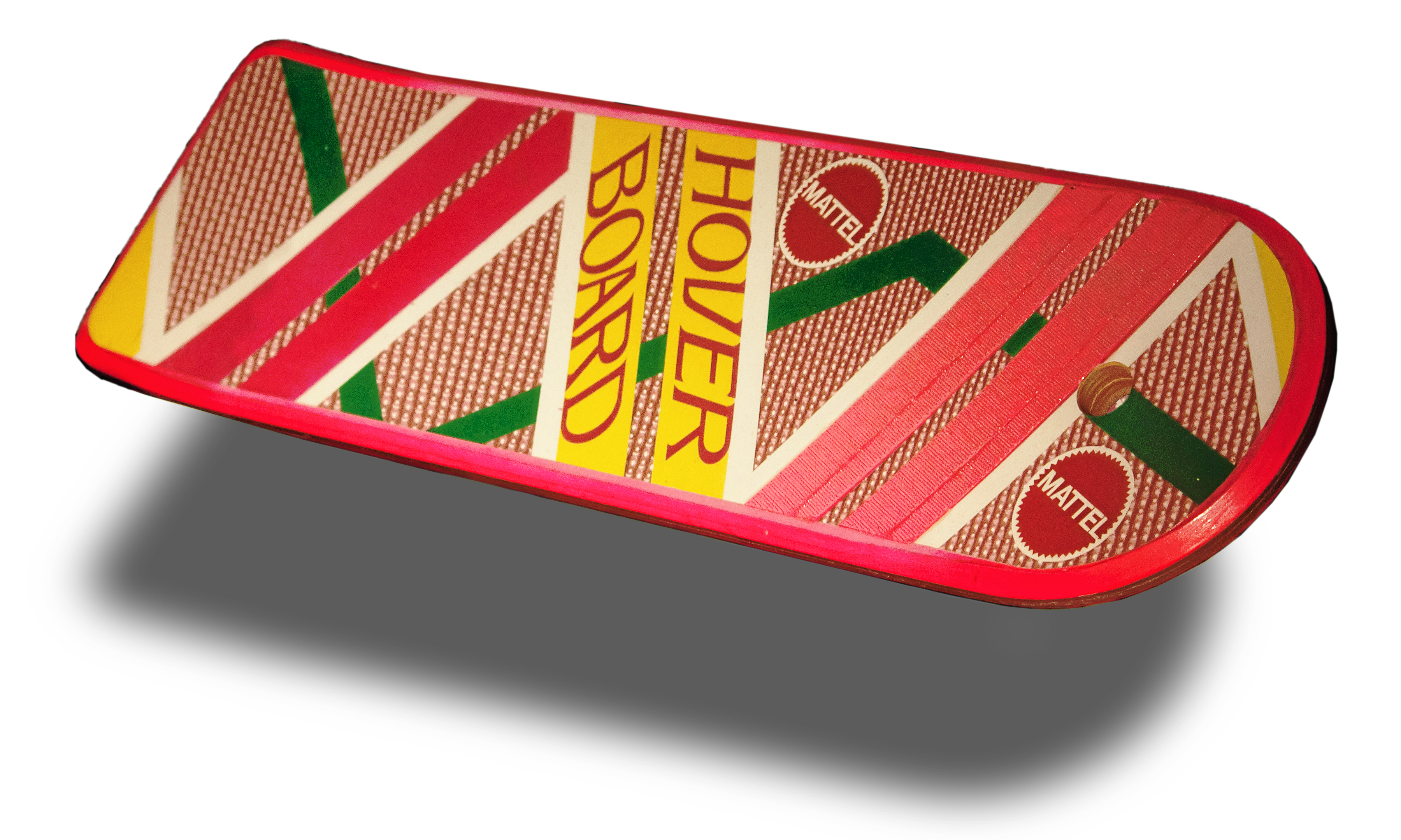 A Hoverboard (or hover board) is a fictional hovering skateboard